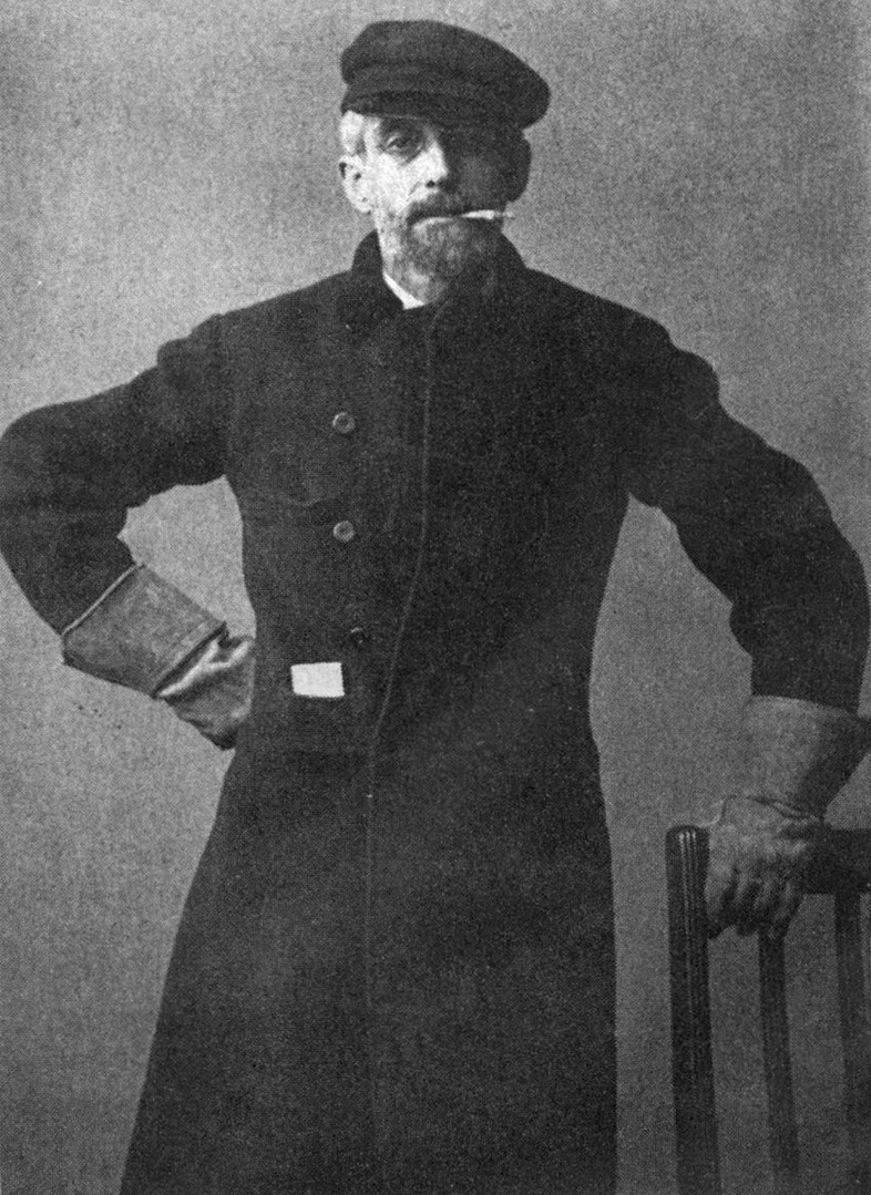 Hugh Owen Thomas (1834-1891), British orthopedic surgeon (center) and Robert Jones (right)